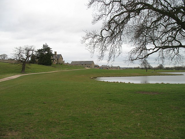 Pond, Shelvock, near to Eardiston, Shropshire, Great Britain. A roof is being taken off one of the buildings in the background.